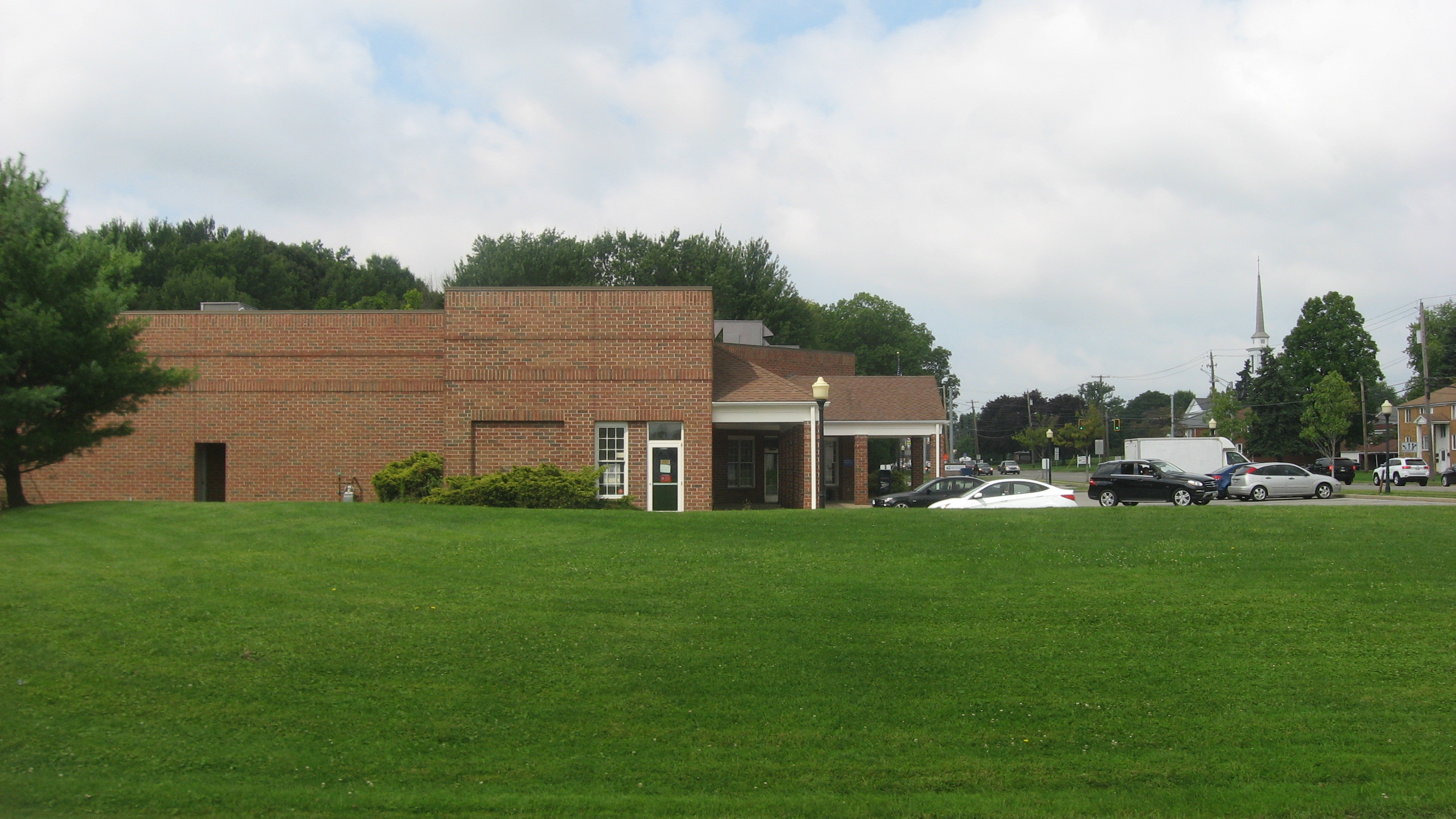 Overview from the east of the Poland Post Office, located at 125 W. McKinley Way (U.S. Route 224) in Poland, Ohio, United States. It occupies the site of the Jared P. Kirtland House, which was listed on the National Register of Historic Places in 1976; although destroyed, it has not yet been removed from the Register.